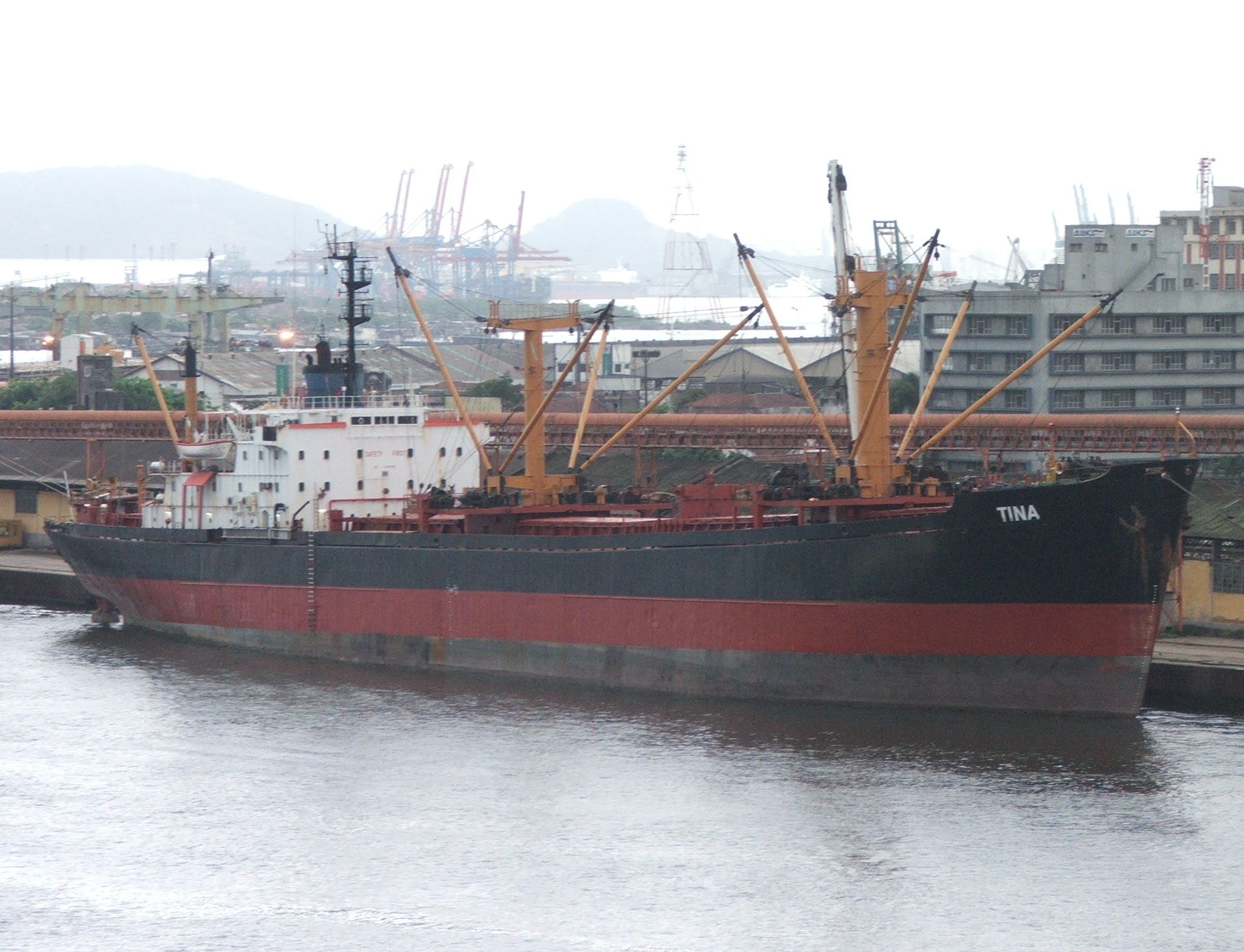 SD-14 Freighter Tina at Santos, Brazil